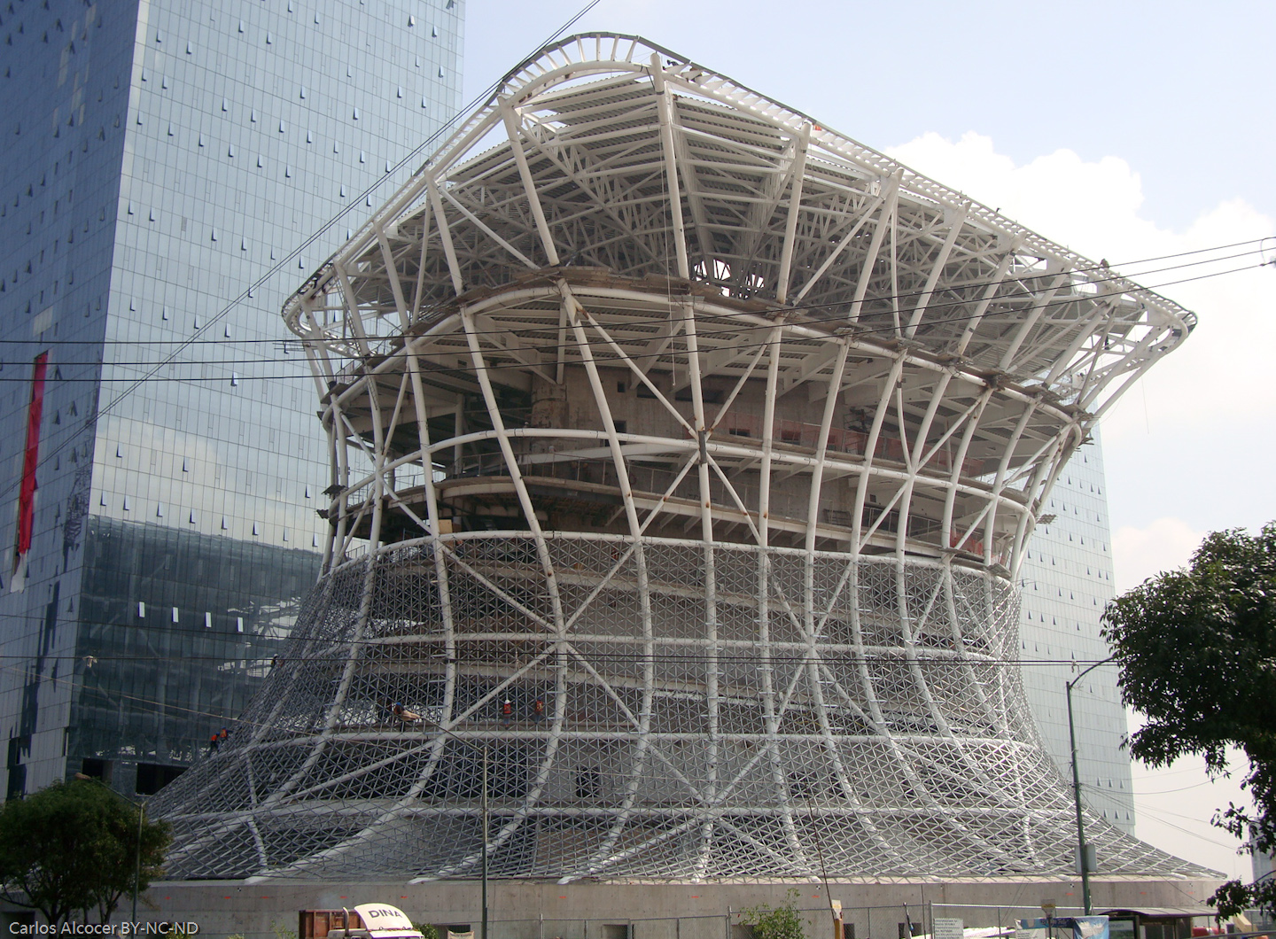 Museo Soumaya (in Polanco, Mexico City) under construction. Architect Fernando Romero.